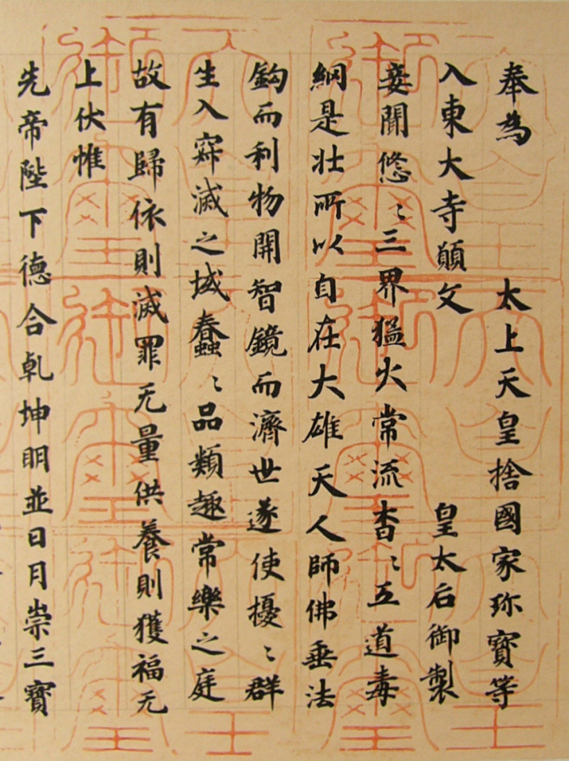 One of Dedicaory Records of Todaiji temple, , top detail, dated June 21, ACE756, 1470.0cm length, 25.8cm height, Shosoin Collection, Nara, Japan